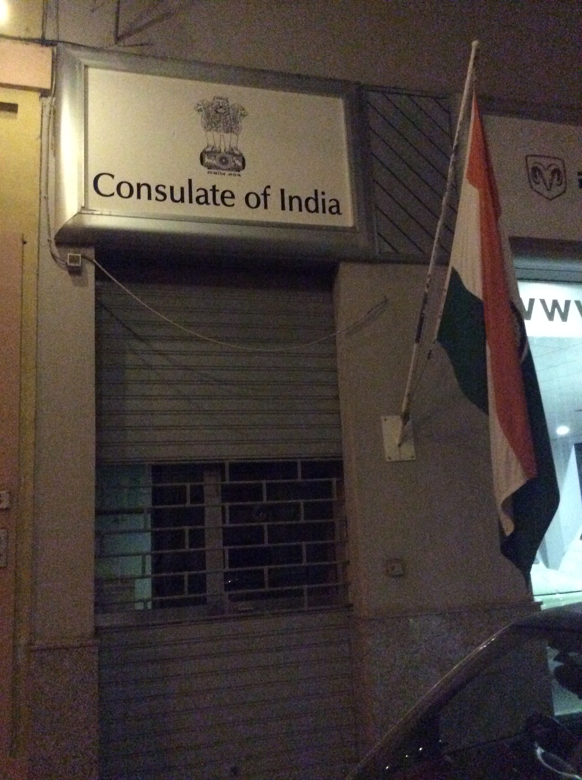 Santa Venera feast